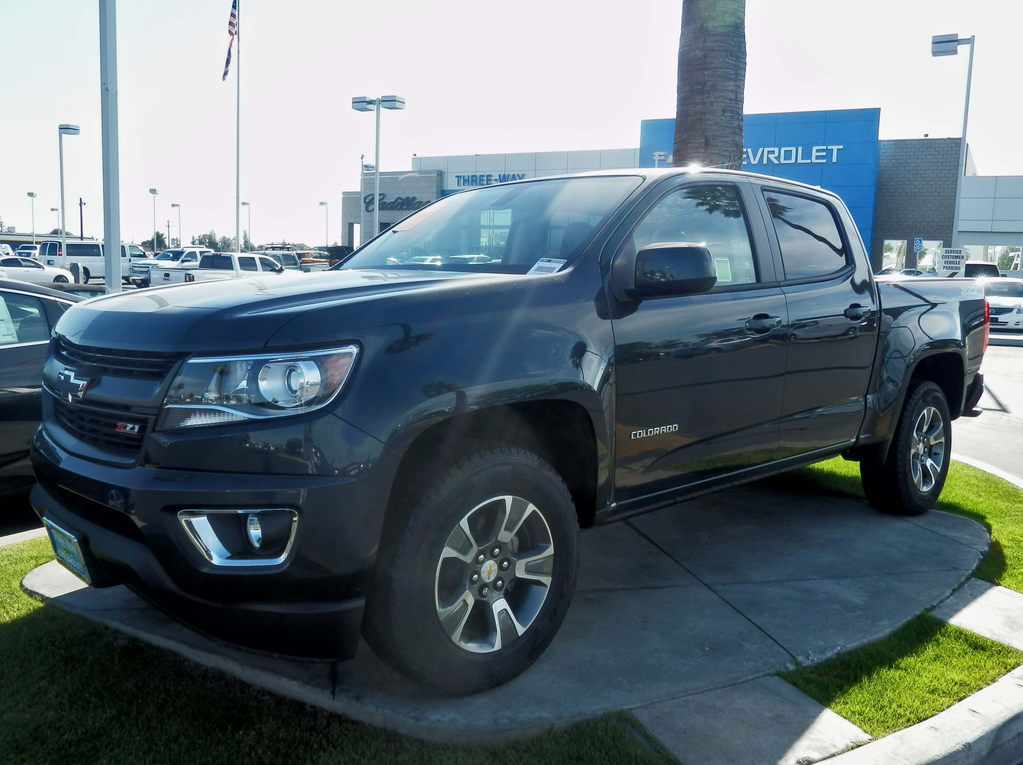 Chevrolet Colorado in Bakersfield